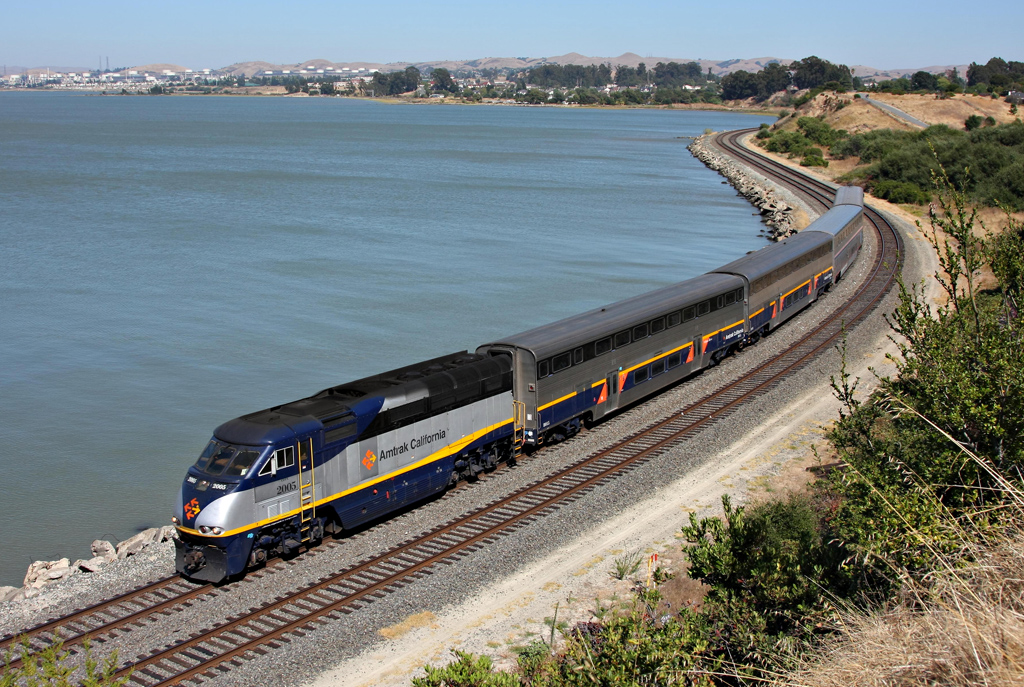 Amtrak California Capitol Corridor train no. 534, Pinole, CA. This is a mixed consist with both "California Cars" (the first two) and older Superliner cars (the rear two).